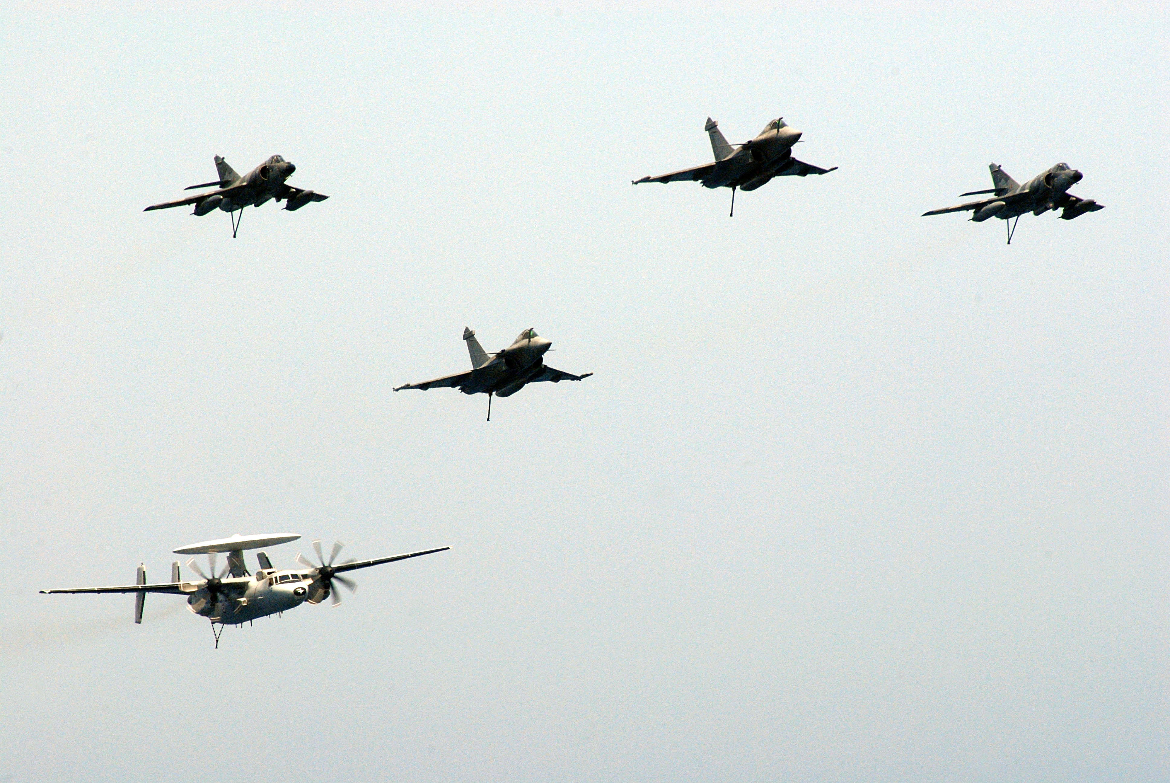 Two French Rafale, two French Super Étendards and an E-2C Hawkeye from the nuclear-powered aircraft carrier Charles de Gaulle (R91) fly in formation above the flight deck of the Nimitz-class aircraft carrier USS John C. Stennis (CVN-74). Stennis, as part of the John C. Stennis Carrier Strike Group, and Charles de Gaulle, the Flagship of Commander, Task Force 473, were operating in the North Arabian Sea. Stennis and Charles de Gaulle are conducting bilateral exercises and supporting multi-national ground forces in Afghanistan.